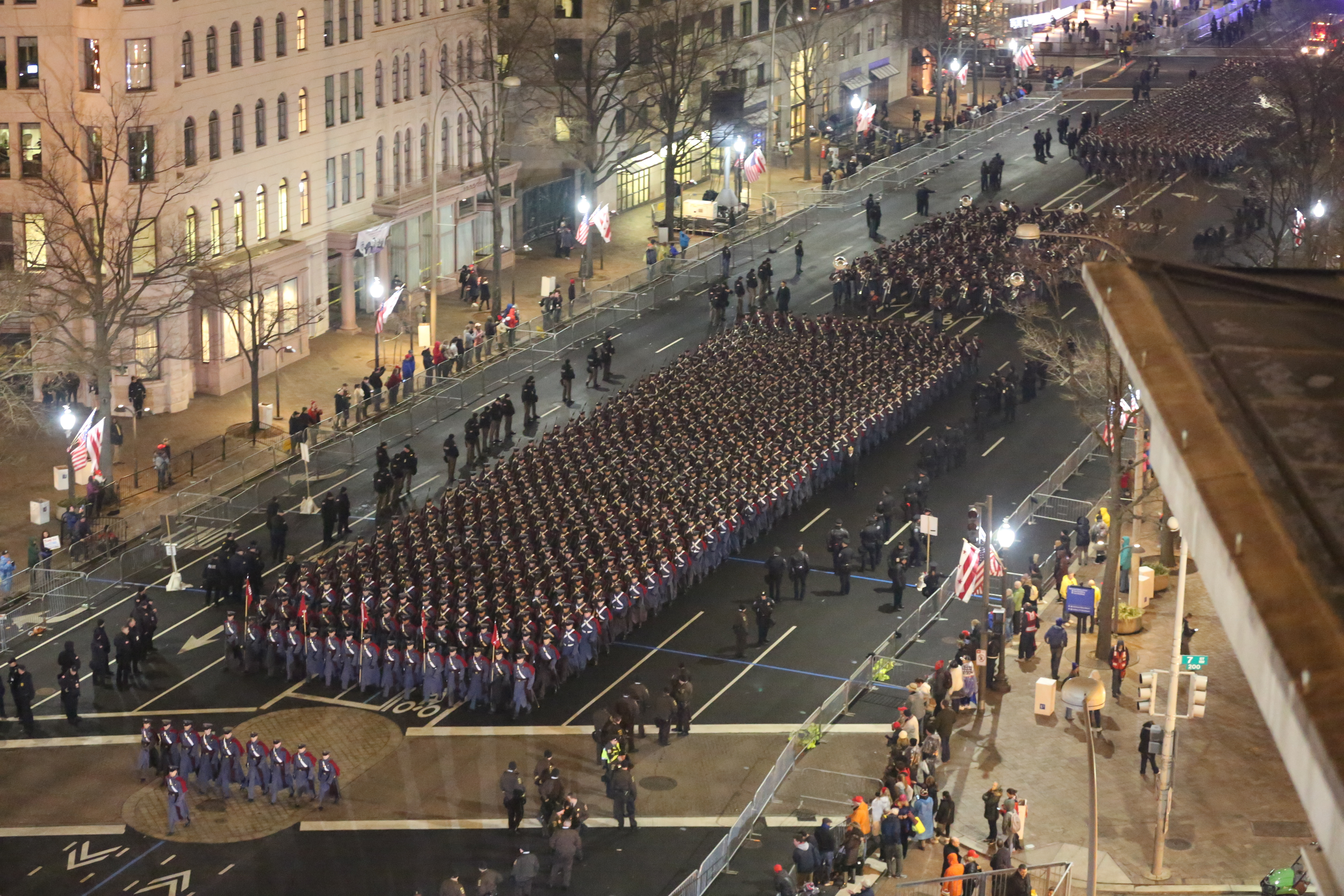 Members of the Virginia Military Institute march down Pennsylvania Avenue in Washington, D.C., Jan. 20, 2017, after the inauguration of Donald J. Trump as the 45th President of the United States. More than 5,000 military members from across all branches of the armed forces of the United States, including Reserve and National Guard components, provided ceremonial support and Defense Support of Civil Authorities during the inaugural period. (DoD photo by U.S. Army Sgt. Michael Christensen) Unit: Joint Task Force - National Capital Region 58th Presidential Inauguration DVIDS Tags: POTUS; Virginia Military Institute; inaugural parade; washington d.c.; JTF-NCR; 58th Presidential Inauguration; Inauguration 2017; President Donald J. Trump; 58th Presidential Inaugural parade; Sgt. Michael Christenen; Jan. 20 2017